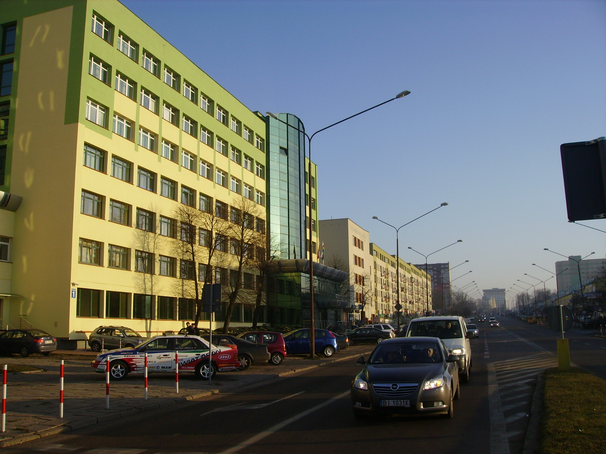 Podlaskie Voivodeship Marshal's Office.